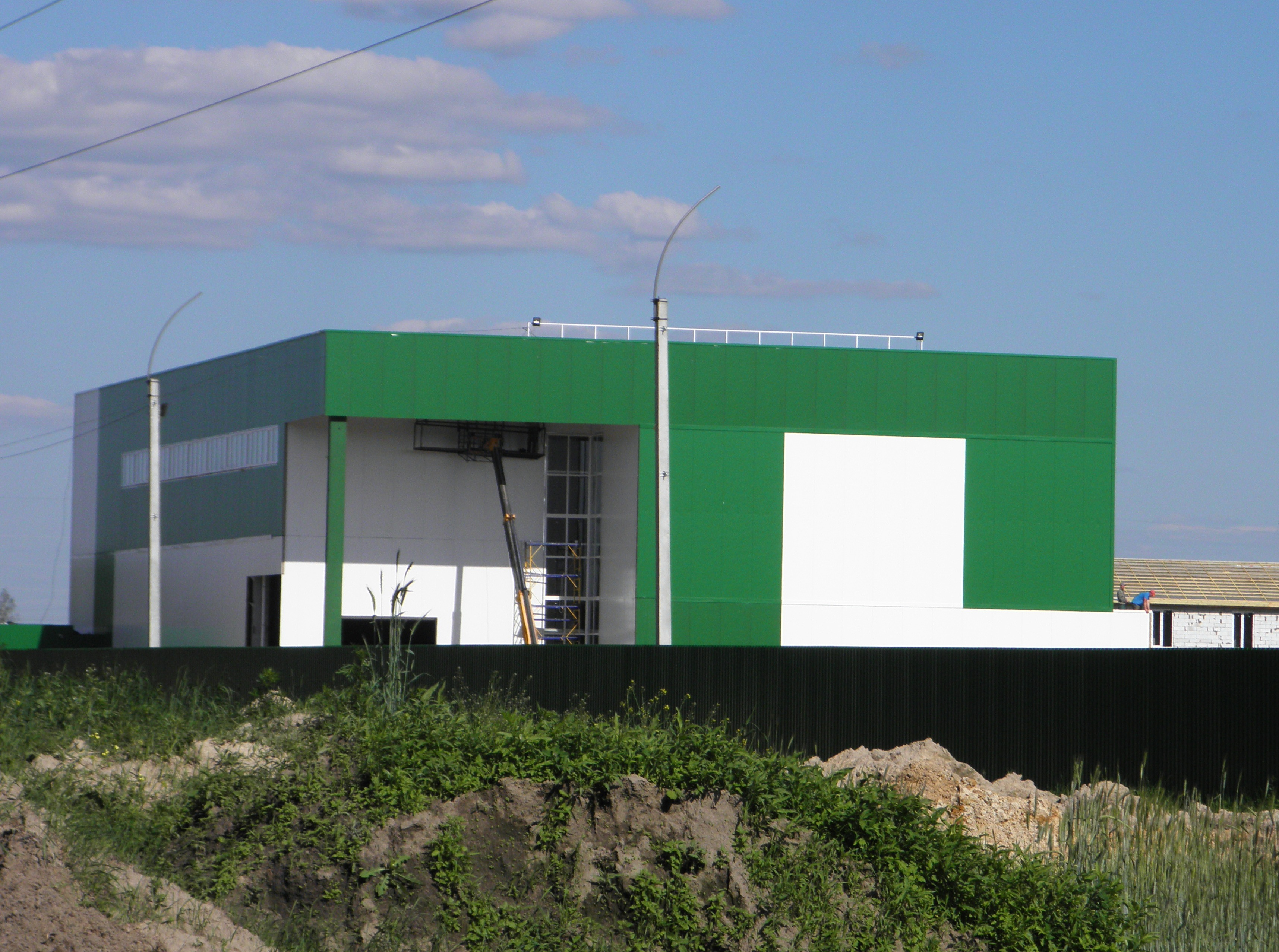 Biofuel TPP 3,5 MWt, during construction. Chernigiv obl. Ukraine